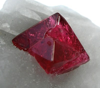 Spinel Locality: Pein Pyit (Painpyit), Mogok, Sagaing District, Mandalay Division, Burma (Myanmar) (Locality at ) Size: 3.1 x 1.8 x 1.5 cm. The world's finest red spinels are associated with the finest rubies in Mogok, Burma. This glassy and gemmy, cherry red spinel octahedron measures about 9mm across and is aesthetically perched on contrasting white matirx. It is exceptionally bright and lustrous. Jack purchased this specimen from now-deceased California collector and dealer J.P. Cand in the late 1990s. Ex. Jack Halpern Collection.